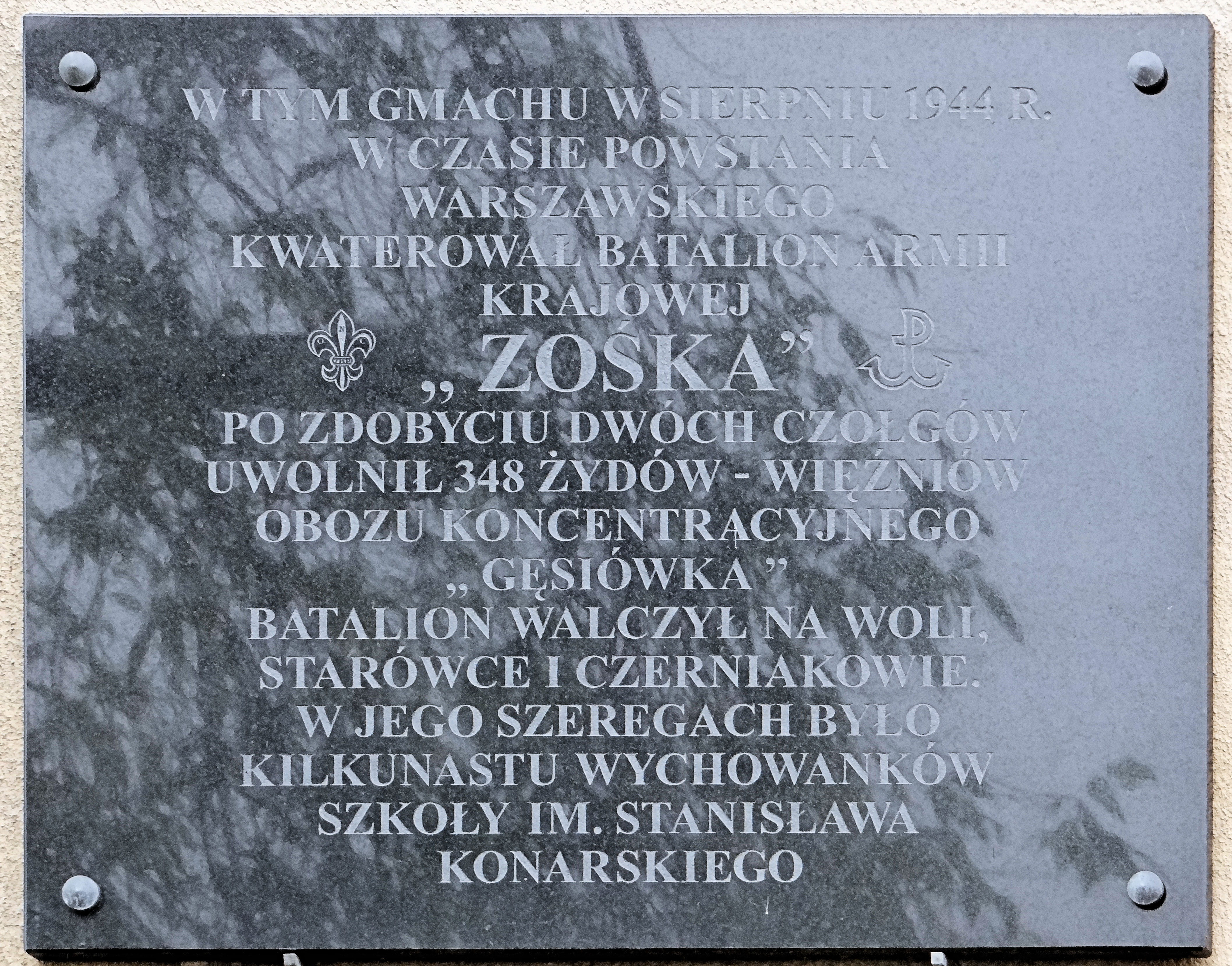 Place of National Memory at 55A Okopowa Street in Warsaw